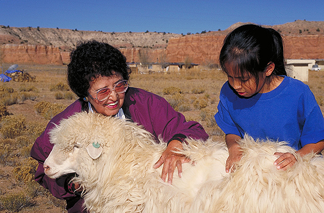 A Navajo woman shows the long fleece of her Navajo-Churro sheep to a Navajo child